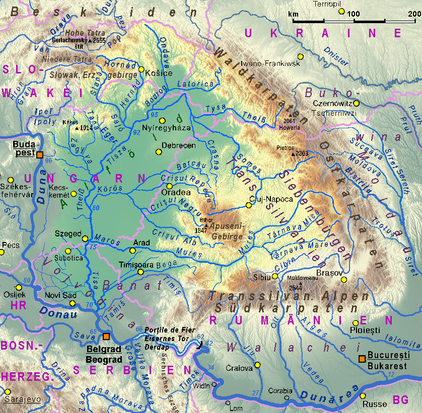 Basin of Tisza river